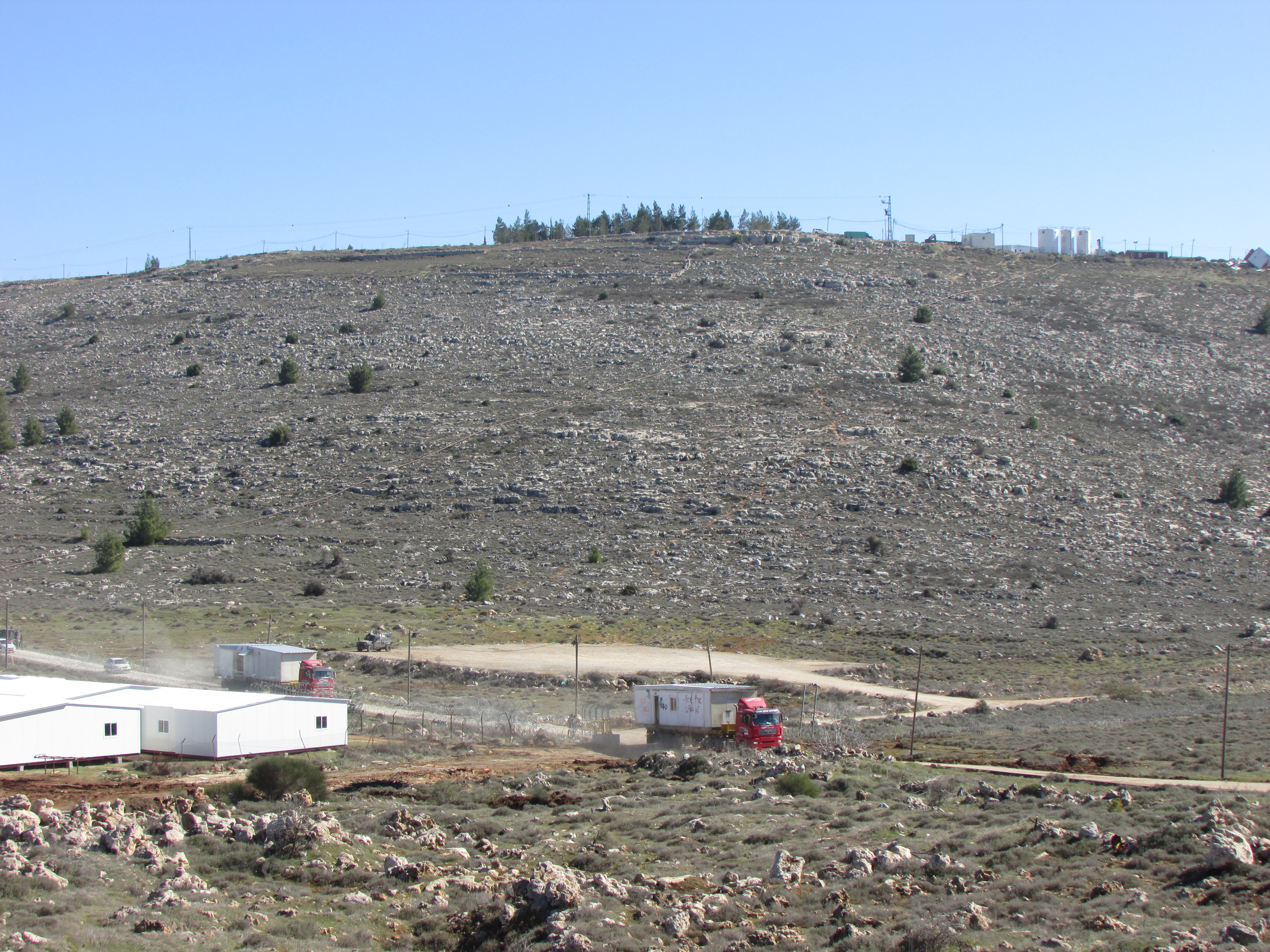 Evacuation of Amona. Removing the prefab houses.